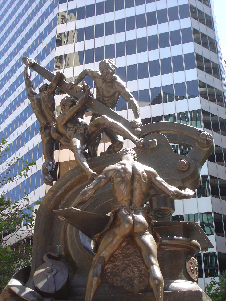 A monument to the working and supporting classes along Market Street in the heart of San Francisco's Financial District, home to tens-of-thousands of professional and managerial middle class workers each day.